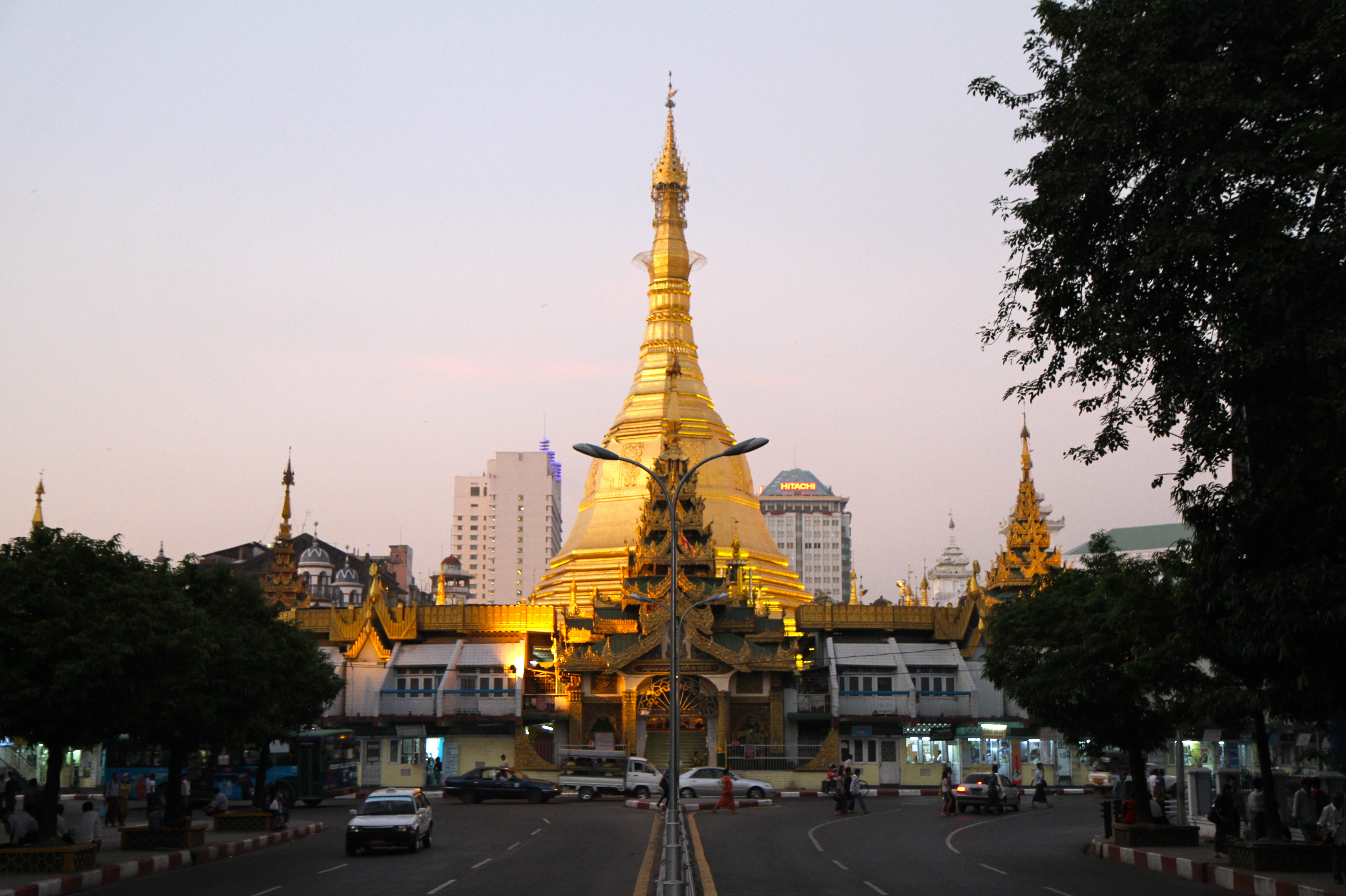 Sule pagoda in Yangon (Myanmar)